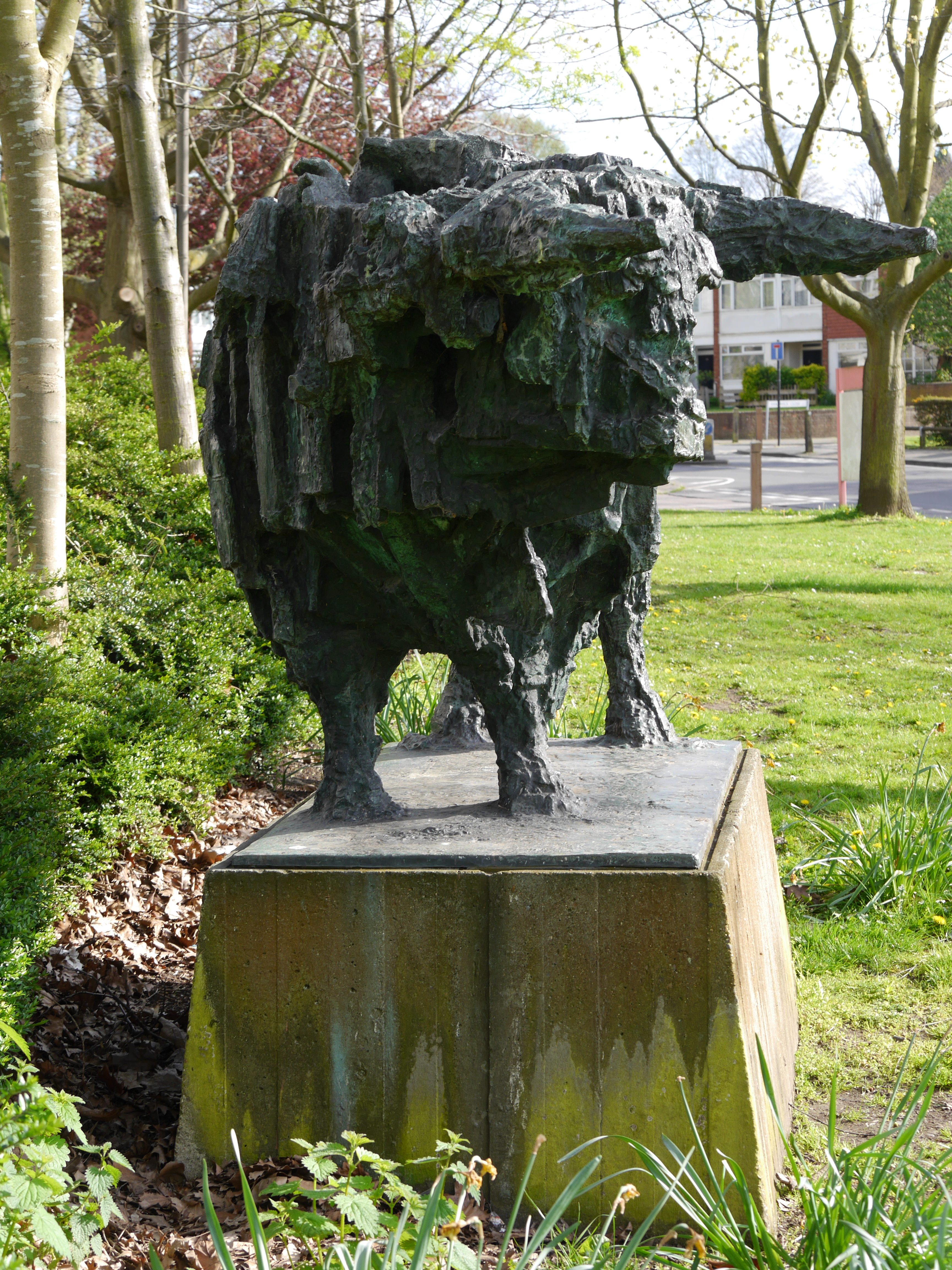 THE BULL AT FOOT OF DOWNSHIRE FIELD ALTON ESTATE Wikidata has entry Q17532147 with data related to this building.